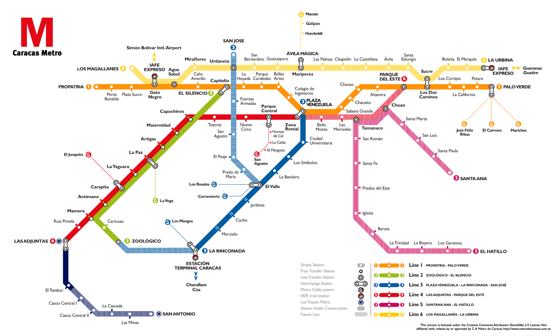 Caracas Metro map with current and future or under construction lines and stations.